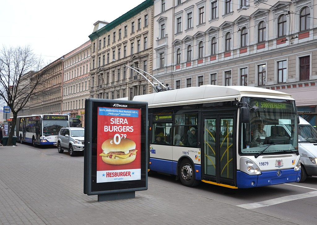 In Riga, trams, trolleybuses and diesel buses use the same route numbers for different routes. Trolleybus on route 3 to Sarkandaugava in front, diesel bus on route 3 to Plavnieki in the rear